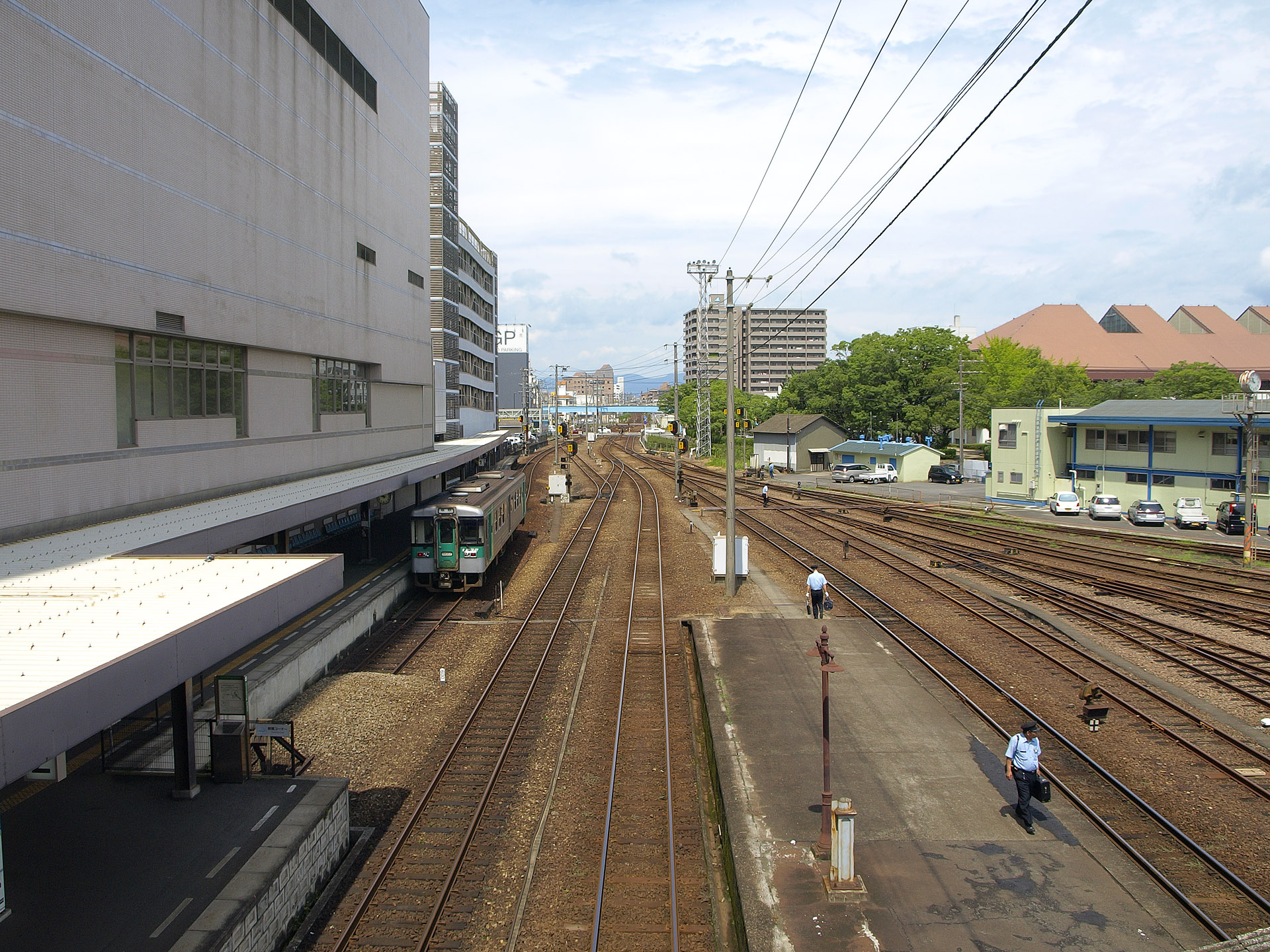 Westward view from Tokushima Station, Tokushima City, Japan.